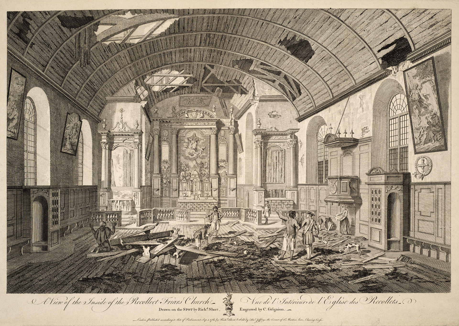 A View of theInside of the Recollets Friars Church, drawn on the Spot by Richard Short